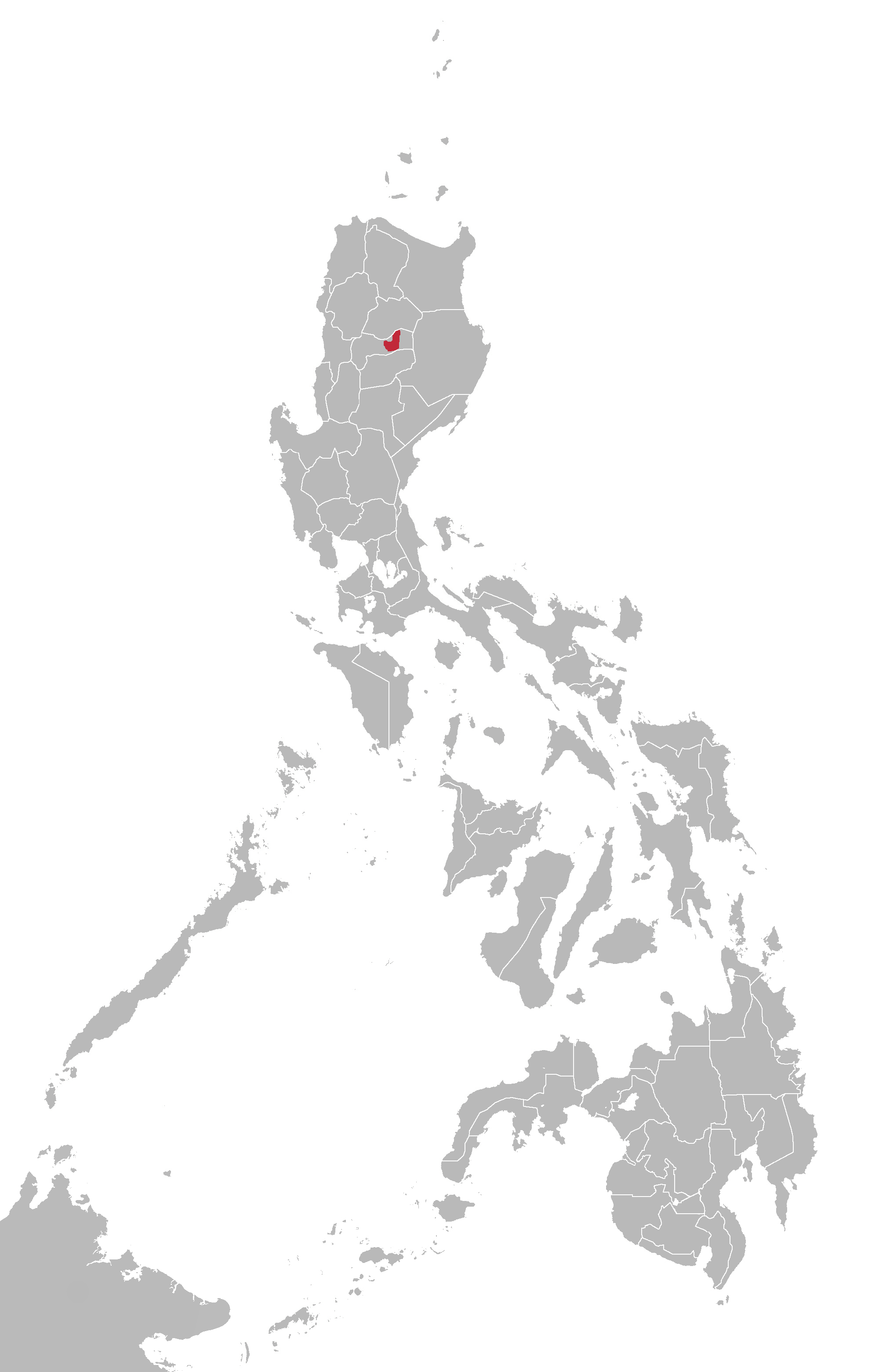 Balangao language map based on Ethnologue maps